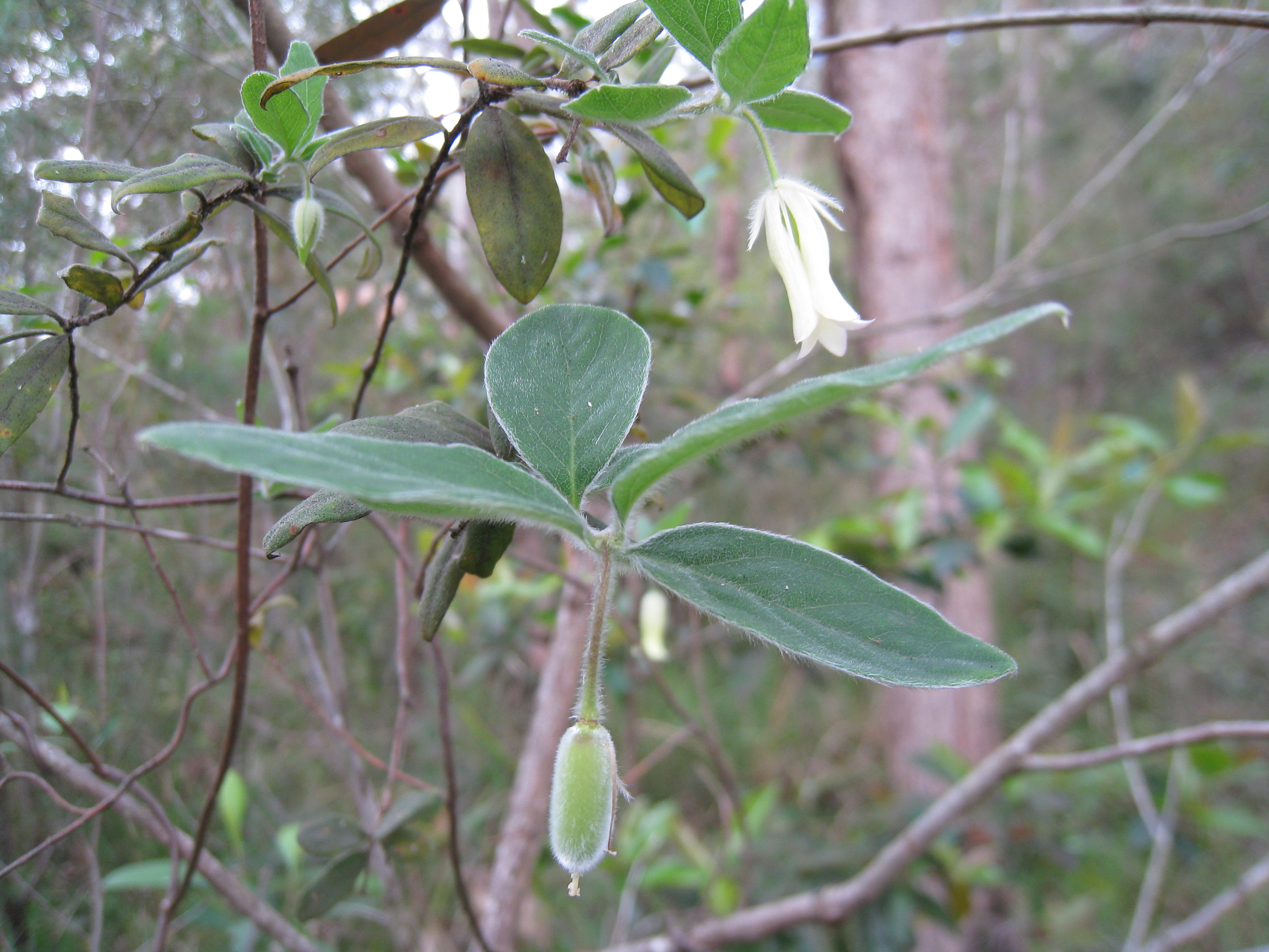 Apple-Berry, Billardiera scandens. Paruna Reserve, Como NSW, Australia, October 2010.